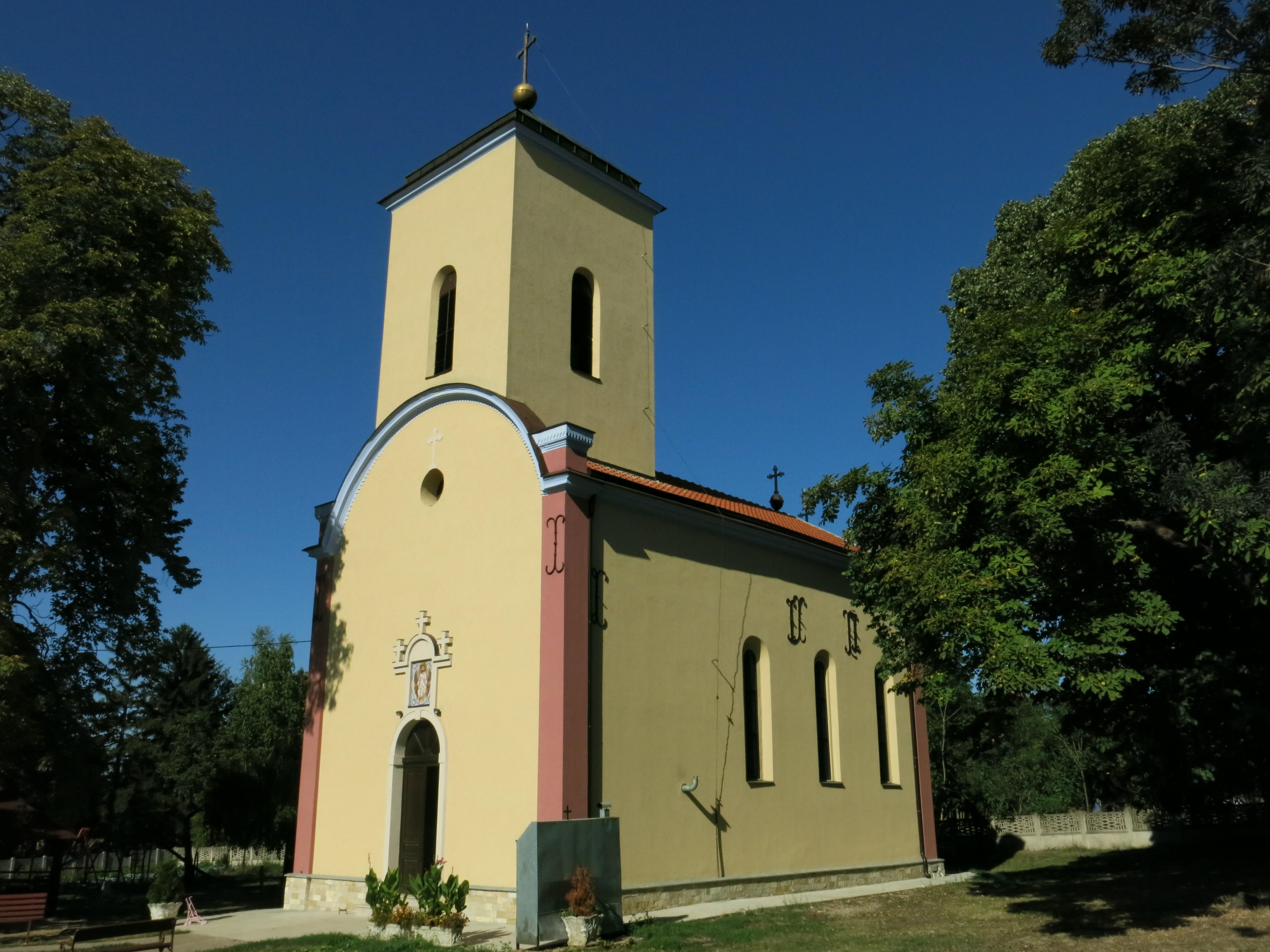 Drugovac, Church of the Holy Ascension